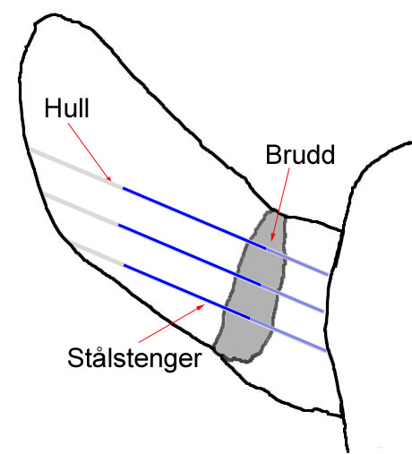 The reerected "Trollpikken" in Dalane, Norway